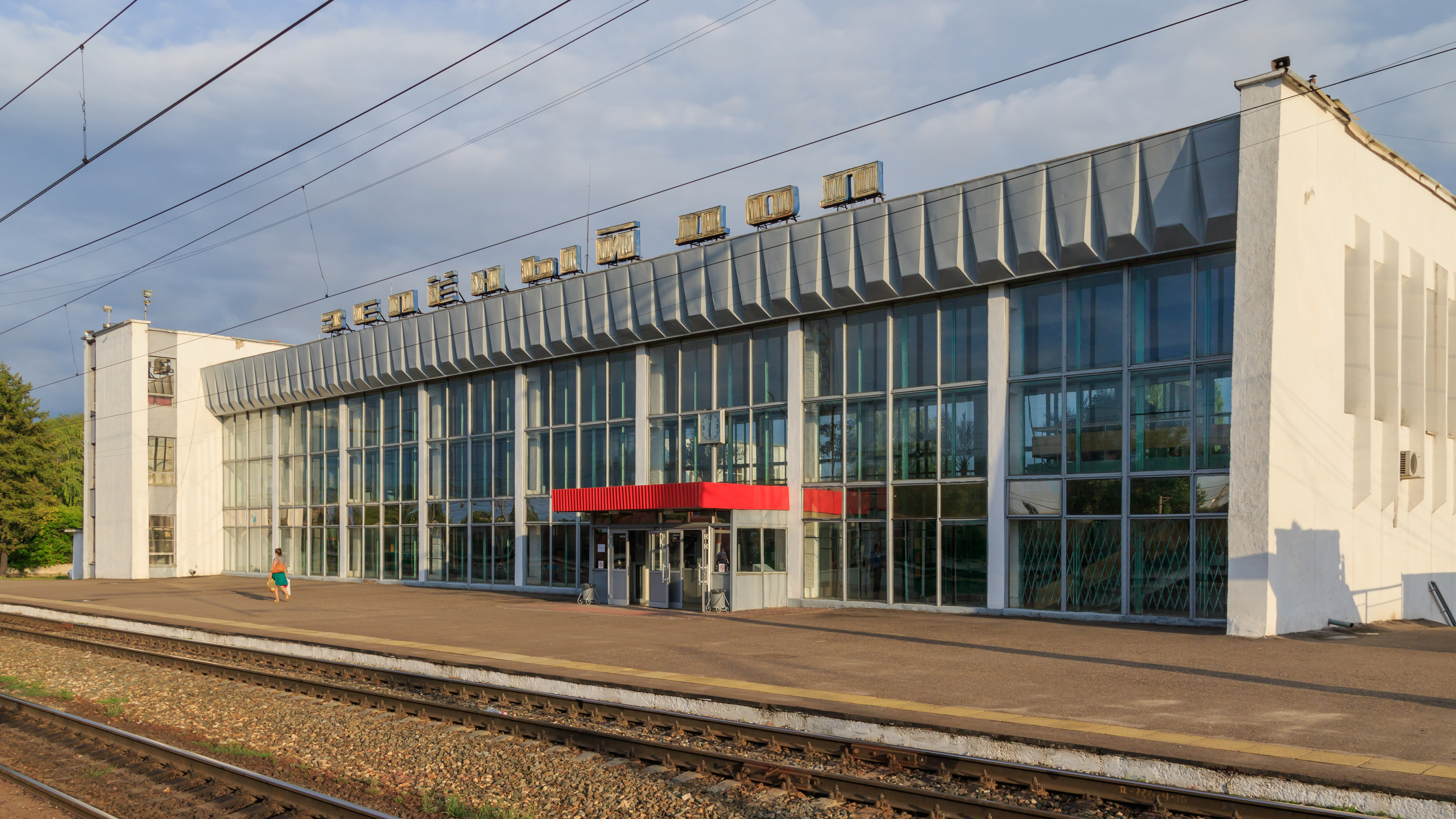 Terminal building of Zeleny Dol railway station in Zelenodolsk, Tatarstan, Russia